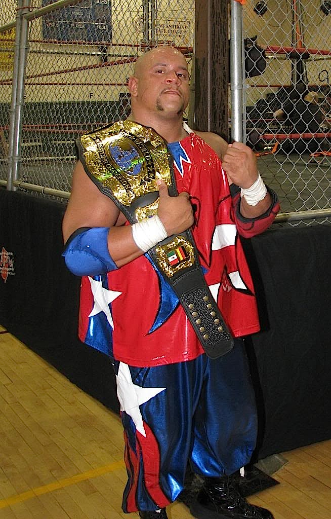 Dan Maff at the JAPW event Caged Destiny